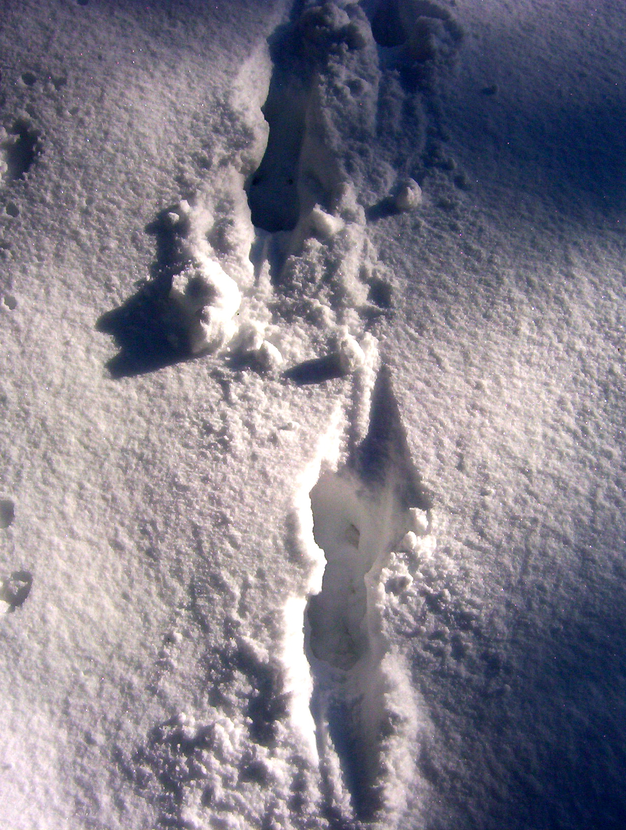 moose tracks in deep snow, Alaska